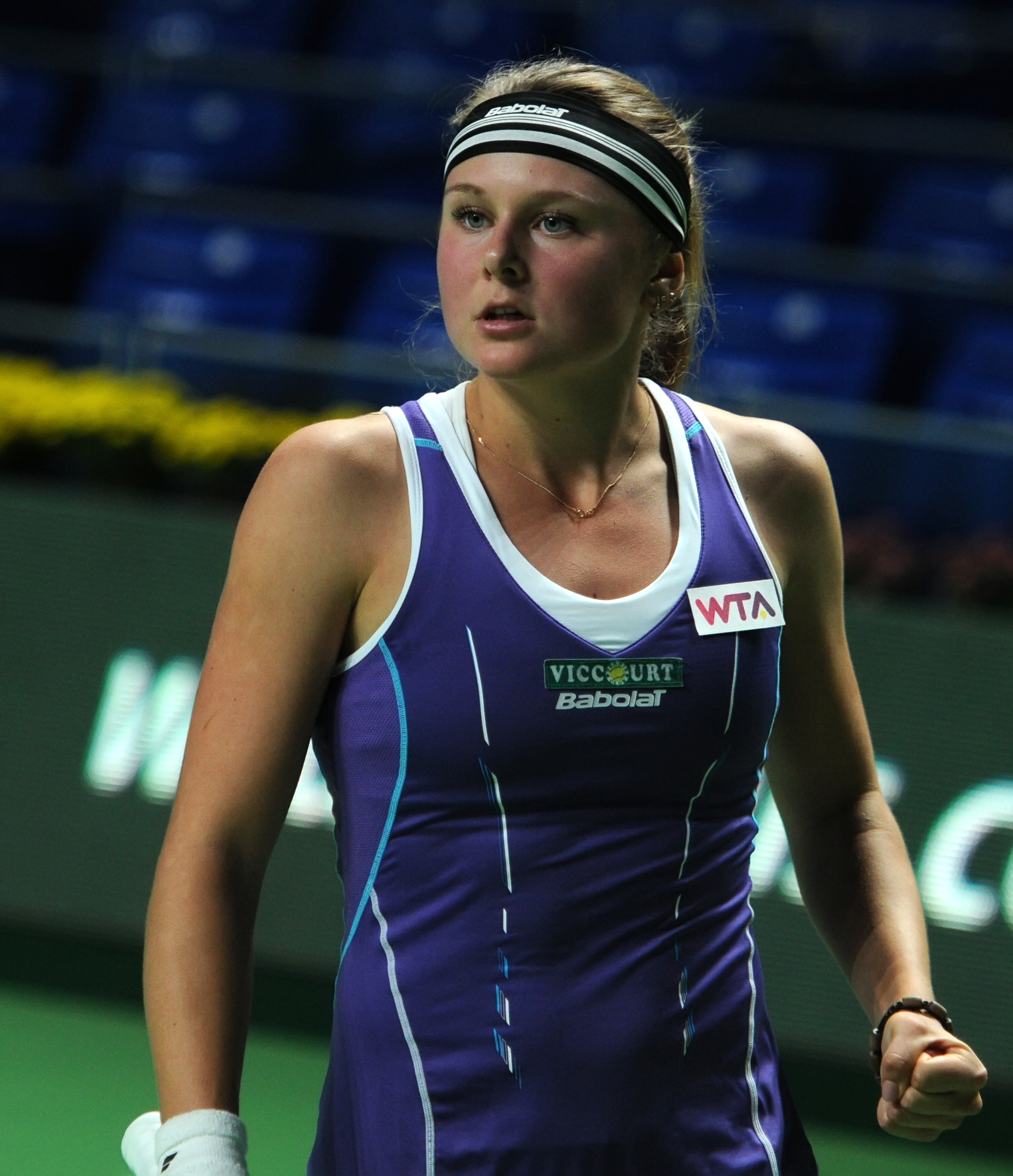 Kateryna Kozlova at the 2014 Kremlin Cup